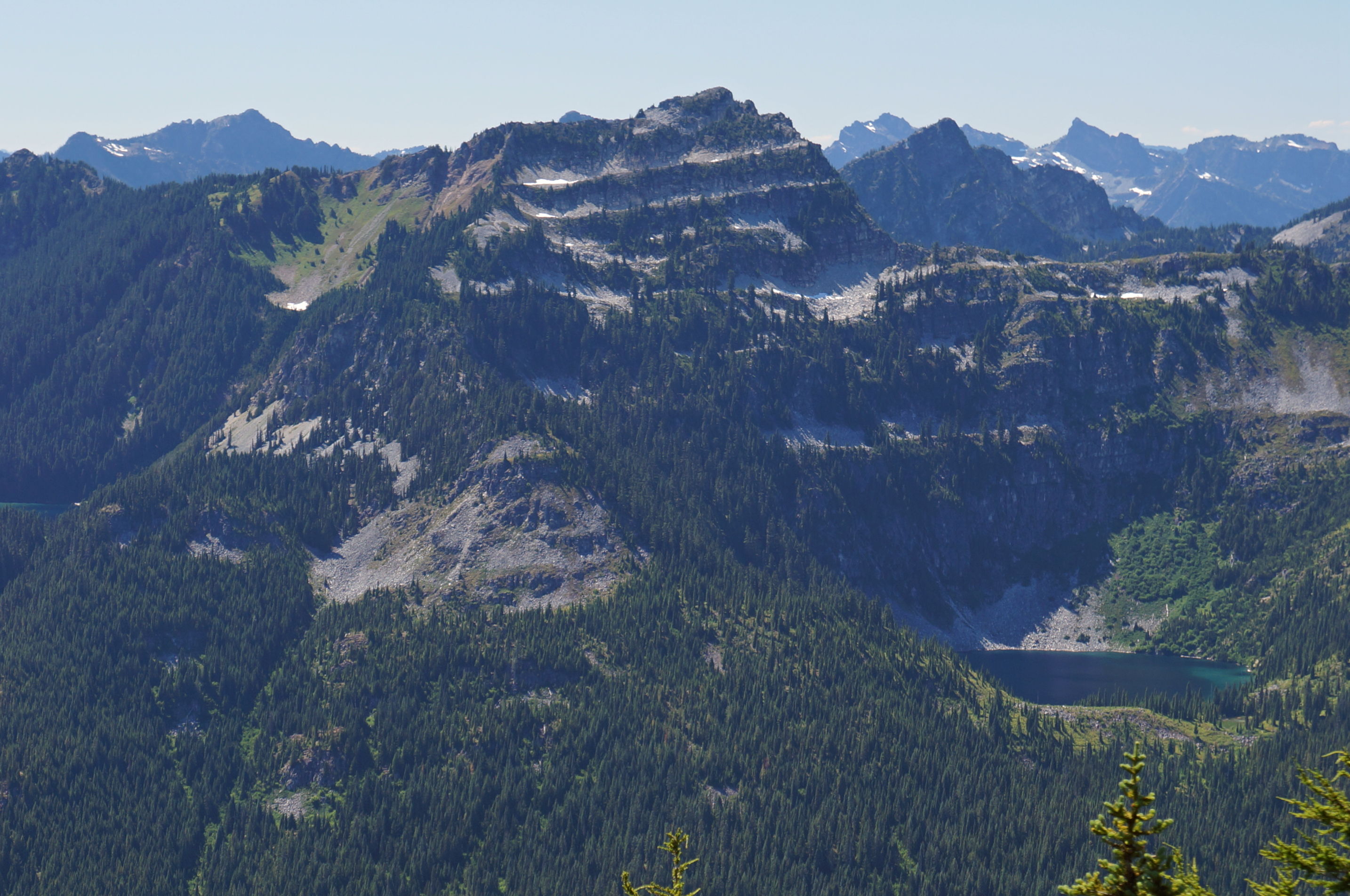 Terrace Mountain with Lake Clarice